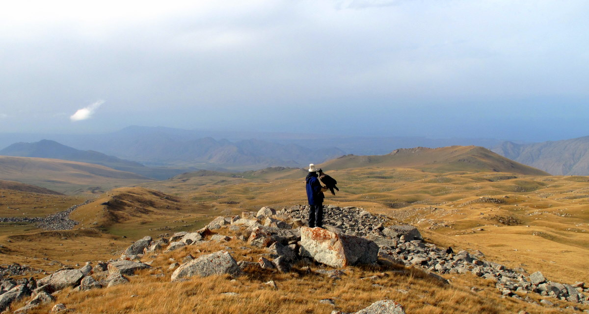 Eagle hunting on South Issy-Kol — in the steppes of Kyrgyzstan.